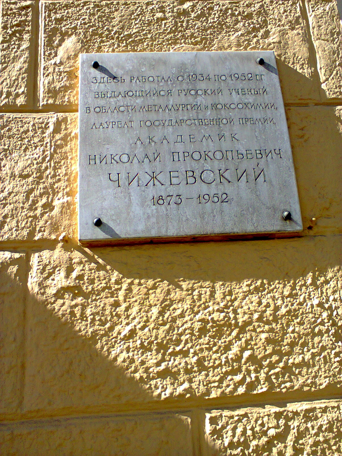 A memorial board dedicated to the well knows scientist (coal and metallurgy) Nikolai Tchizhevsky on the main building of the Institute of fuel science, Moscow, Russian Federation.